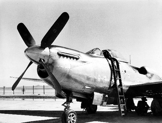 Convair XP-81 showing the original Merlin engine installation.